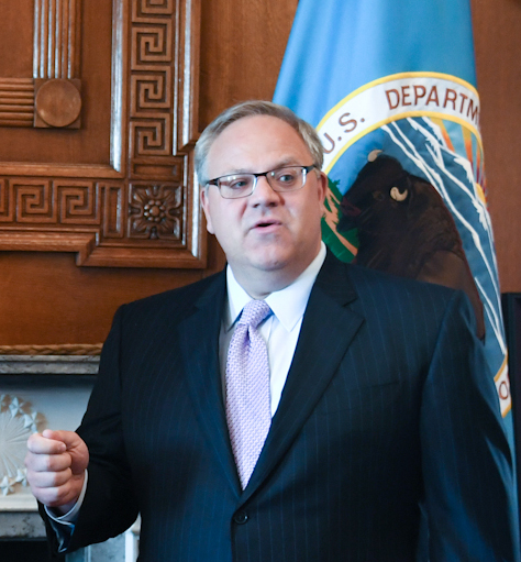 David L. Bernhardt is sworn in by Secretary of Interior Ryan Zinke as the United States Deputy Secretary of Interior.